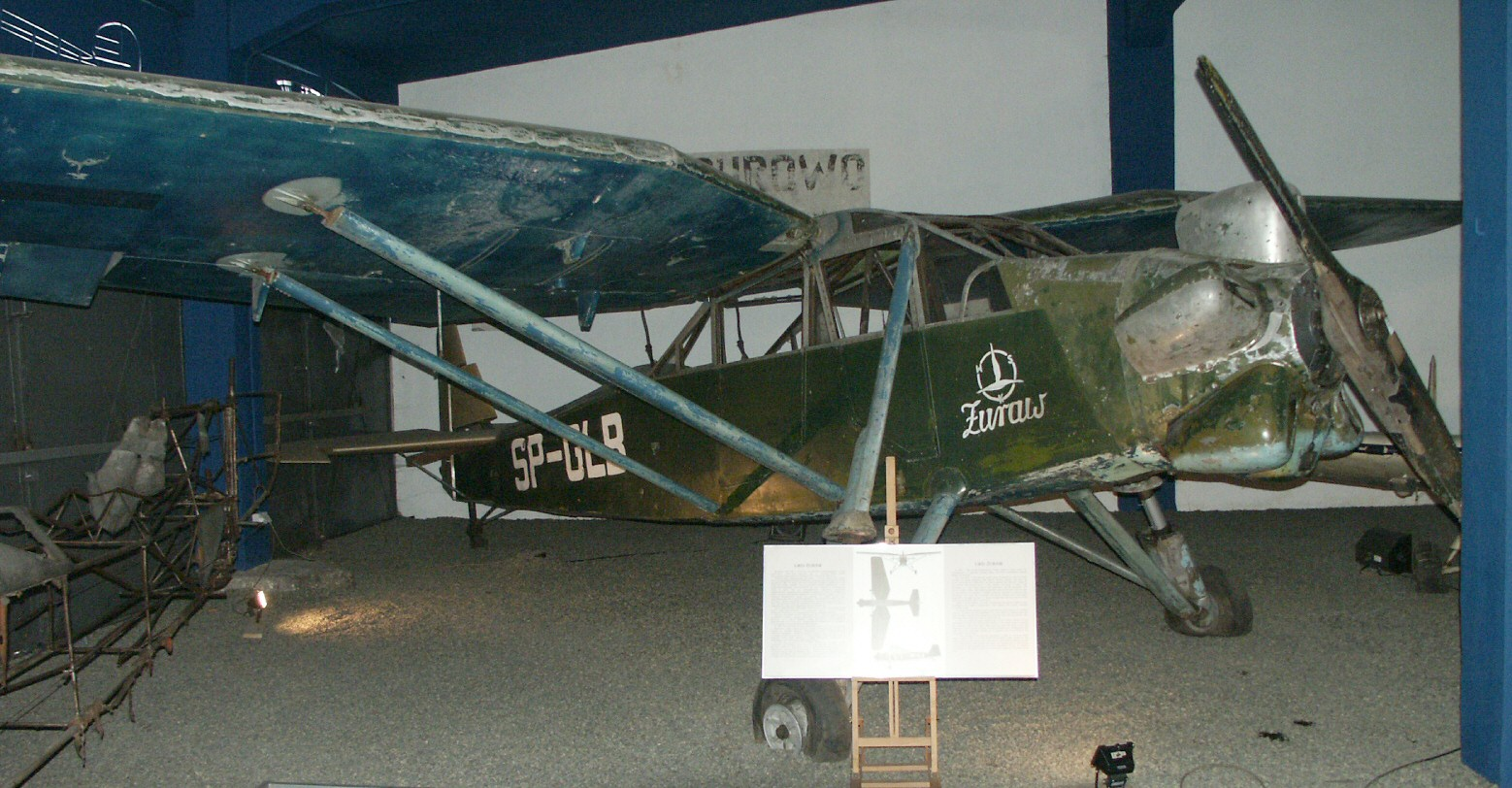 Damaged LWD Żuraw Polish utility aircraft prototype, in the Polish Aviation Museum in Kraków